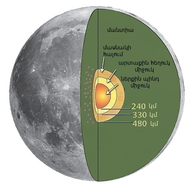 Internal structure of the Moon in Armenian